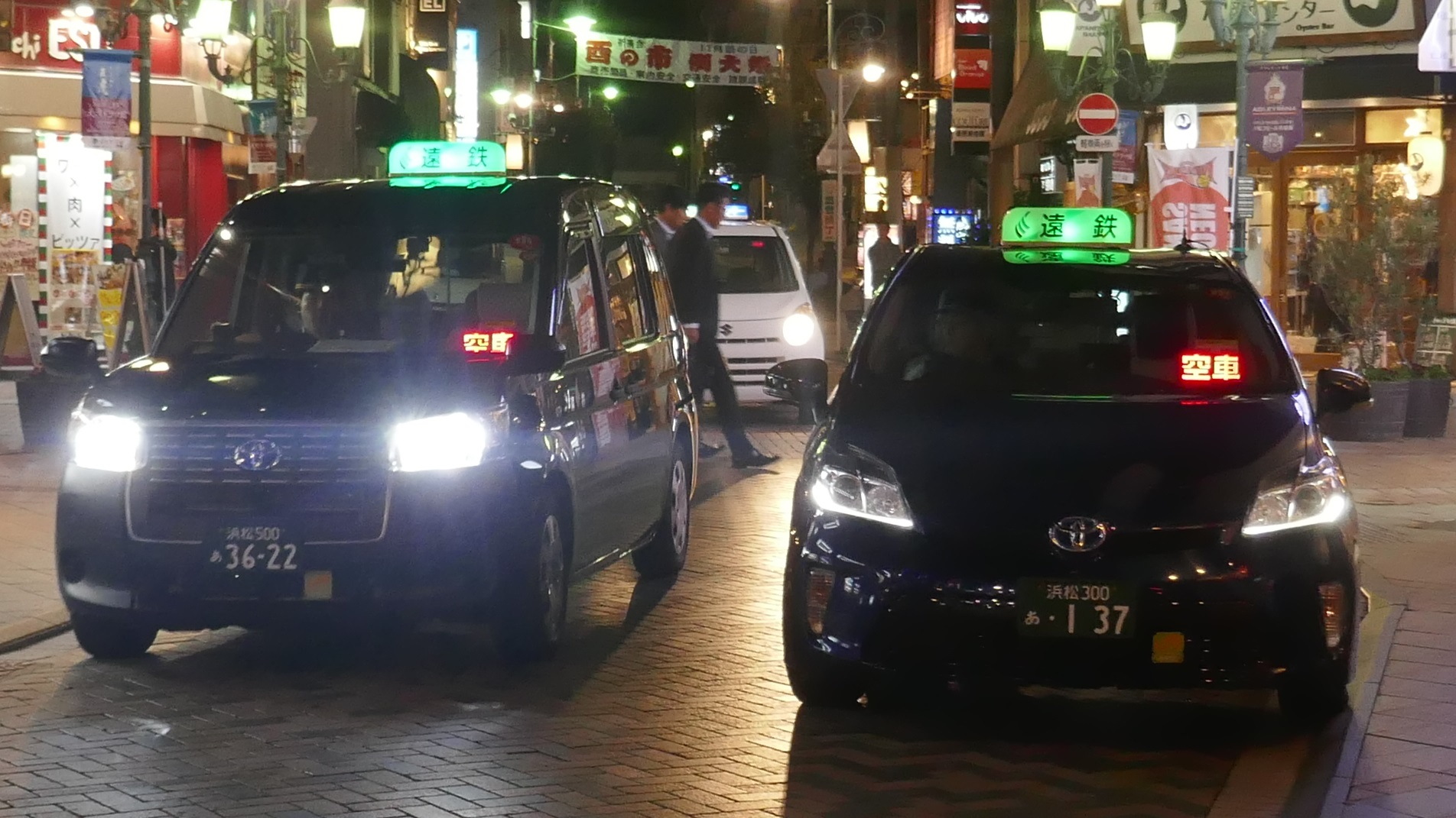 Entetsu Taxi at Daianji Street